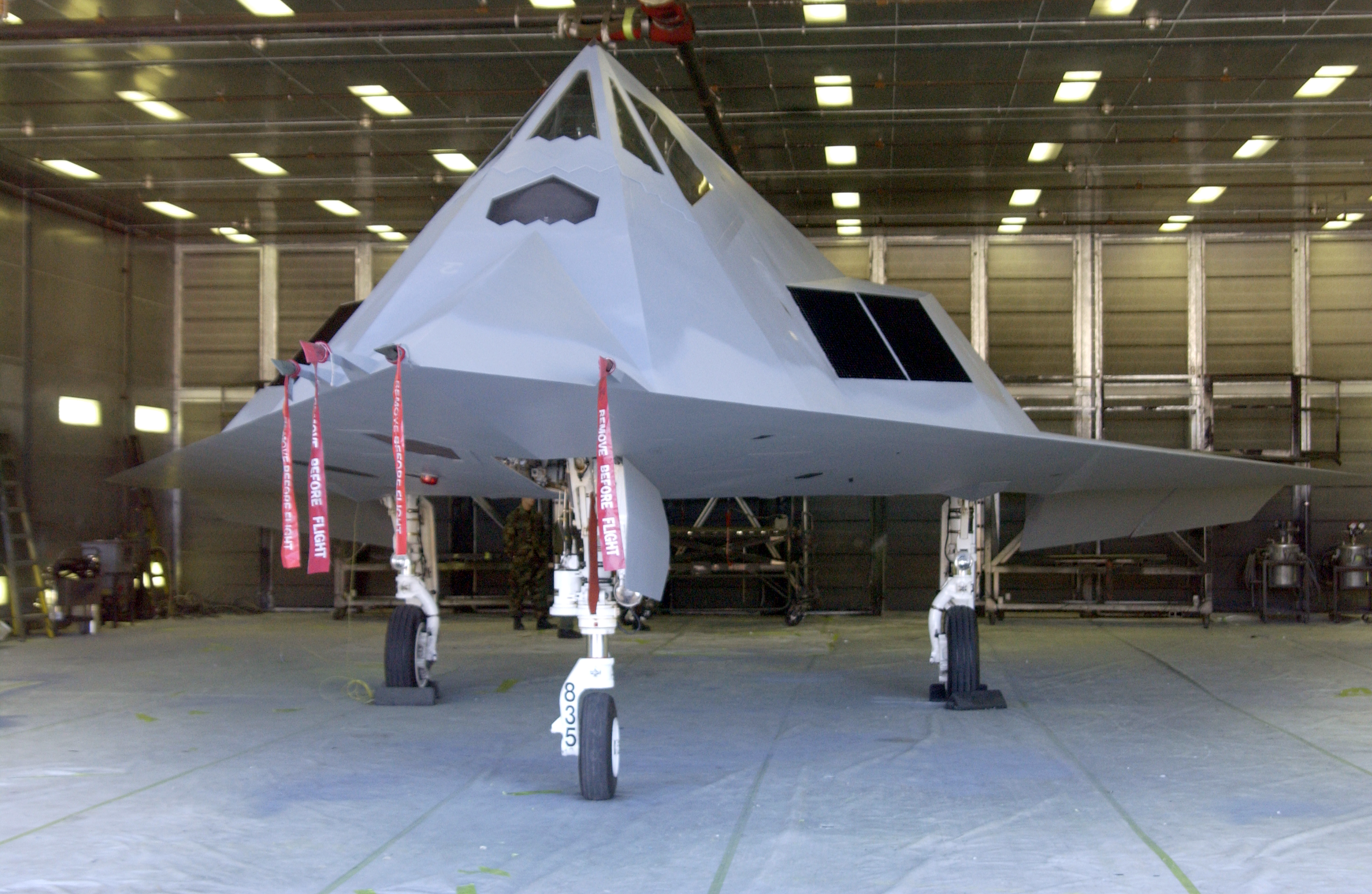 A Nighthawk in Raptor's clothing